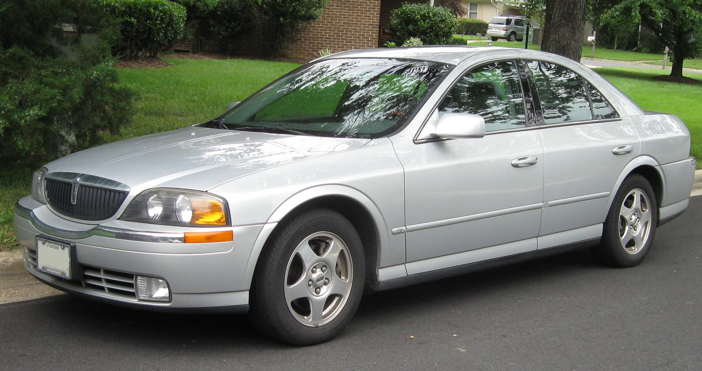 2000-2002 Lincoln LS photographed in Fort Washington, Maryland, USA.